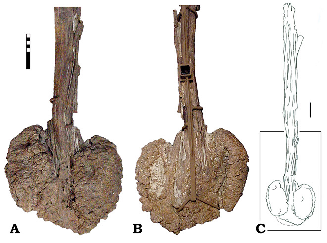 Well preserved tail club of TMP 2001.42.19 from the Upper Two Medicine Formation in A, dorsal, and B, ventral views. C, the complete tail club (rectangle shows area of photos). Scale bars are 10 cm.